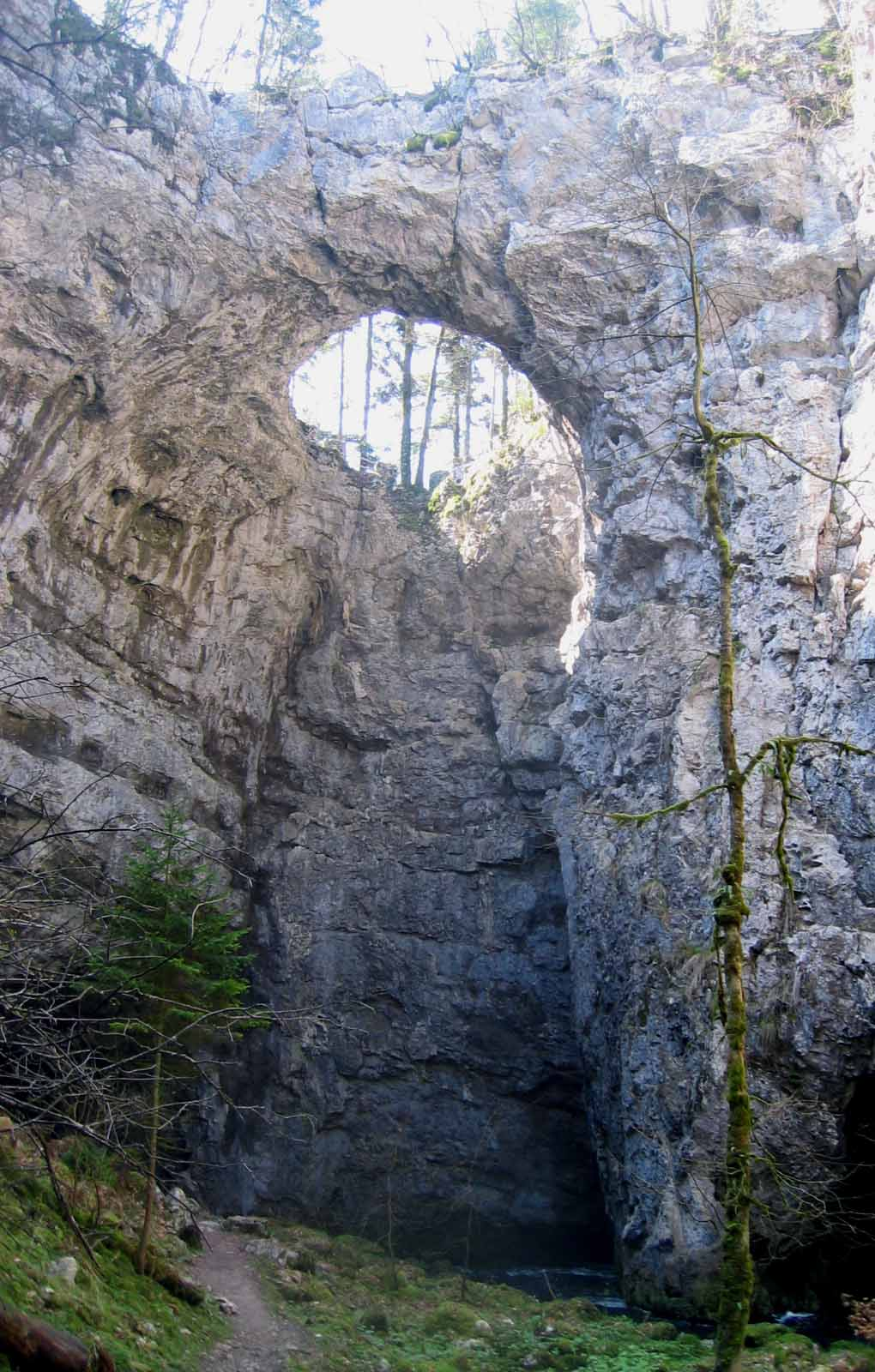 Rakov Škocjan, natural park in Slovenia, "The small natural bridge". Karst river with Karst spring, collapsed dolines and Ponor (large cave sinkhole) in Inner Carniola (Notranjska). photo:Ziga 18:48, 7 April 2007 (UTC)